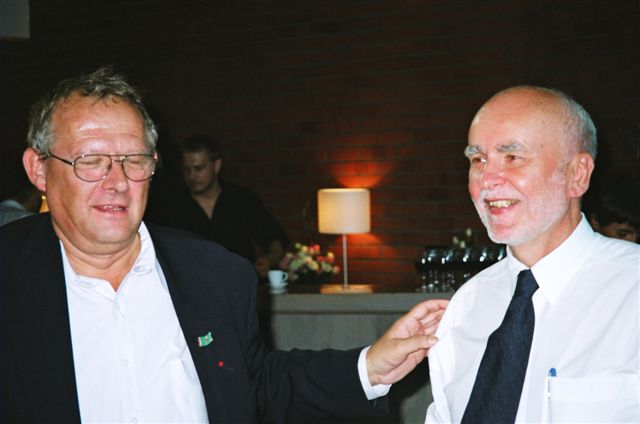 Adam Michnik (b. 1946), Polish journalist, and Adam Zagajewski (b. 1945), Polish writer